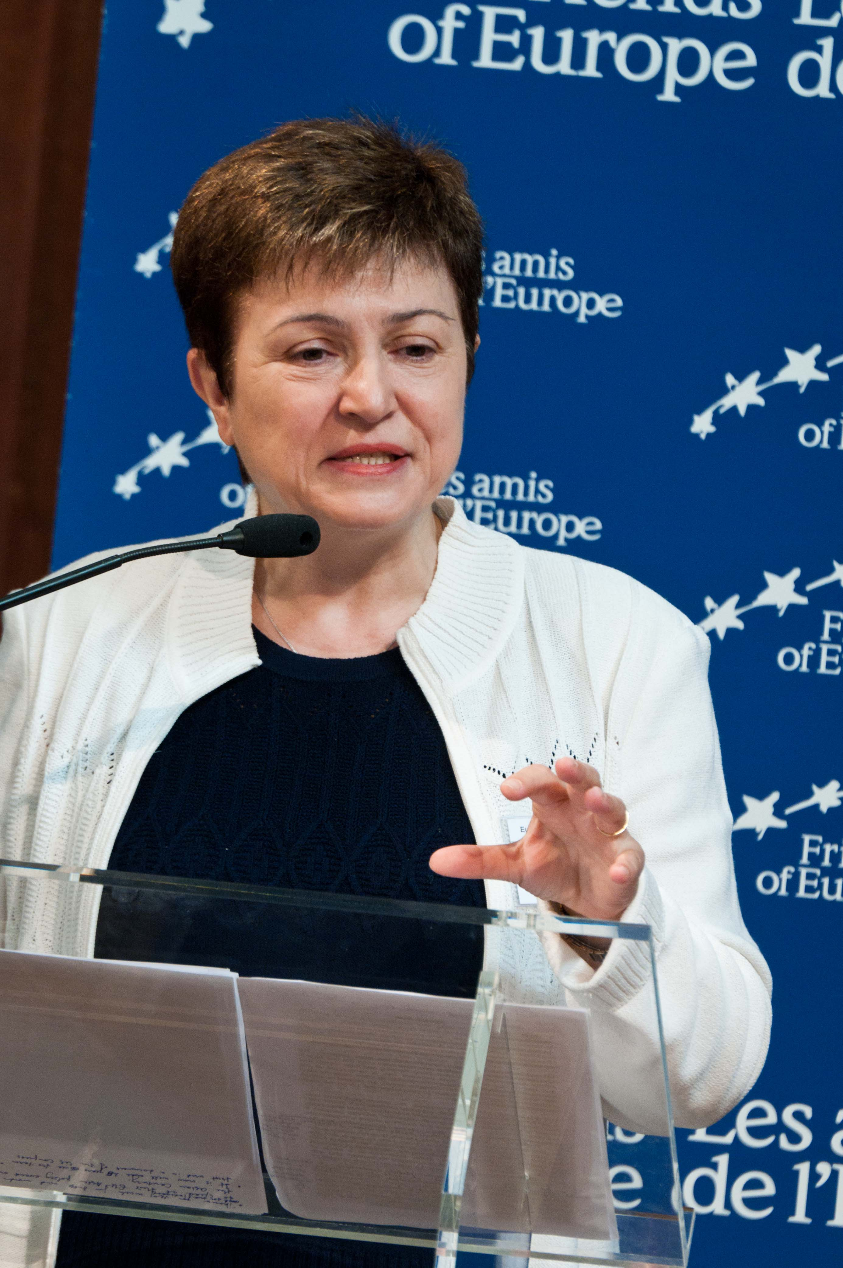 Kristalina Georgieva, European Commissioner for International Cooperation, Humanitarian Aid and Crisis Response